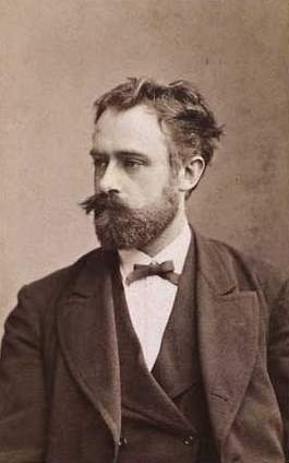 Friedrich Leopold Hermann Hartmann (1839-1897), Danish photographer